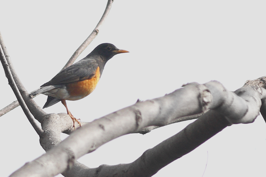 Black-breasted Thrush Khonoma Nagaland India February 2019.